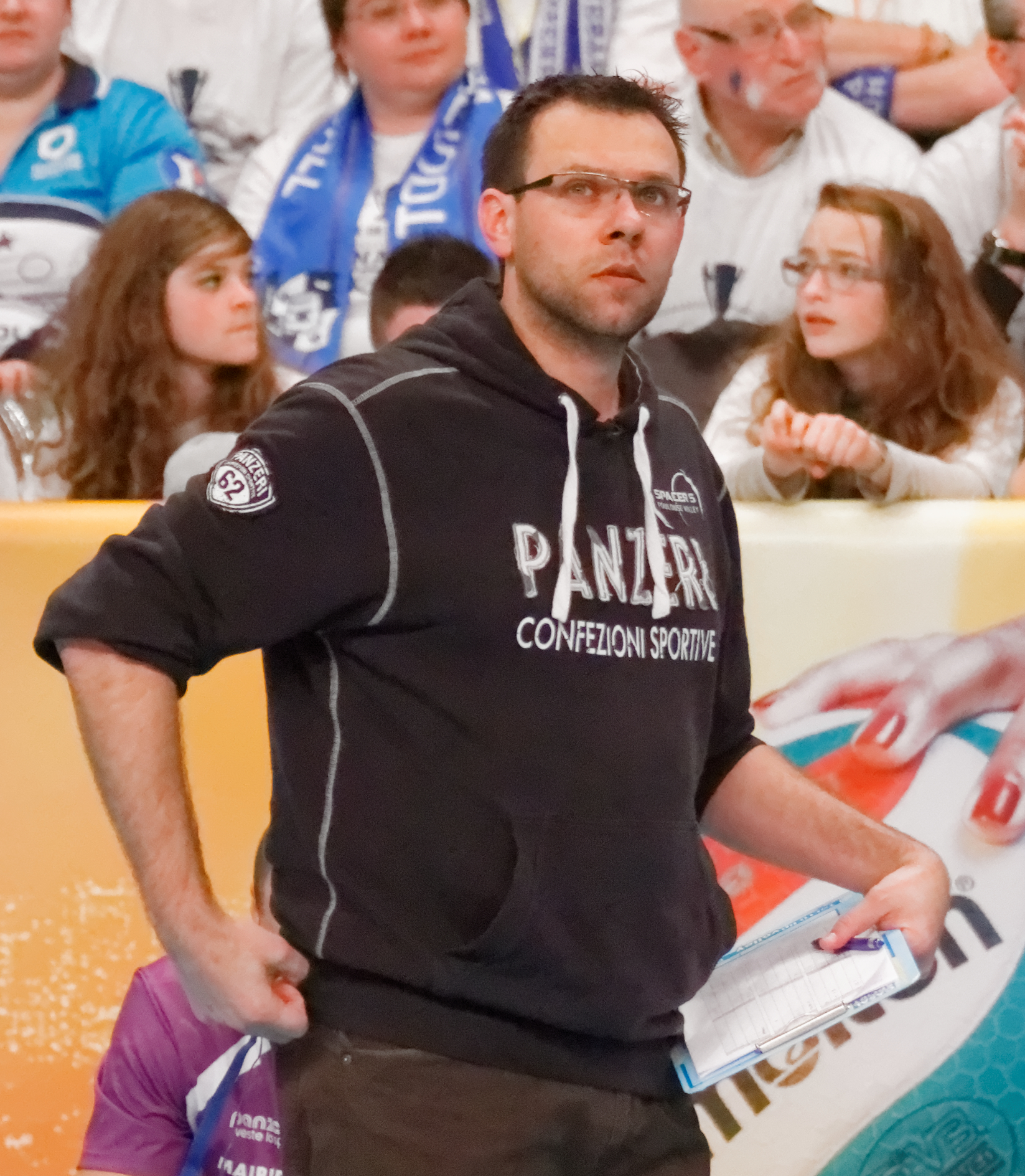 Final of the Volleyball French Cup, Tours Volley-Ball - Spacer's Toulouse Volley, March 30, 2013. Cédric Énard.